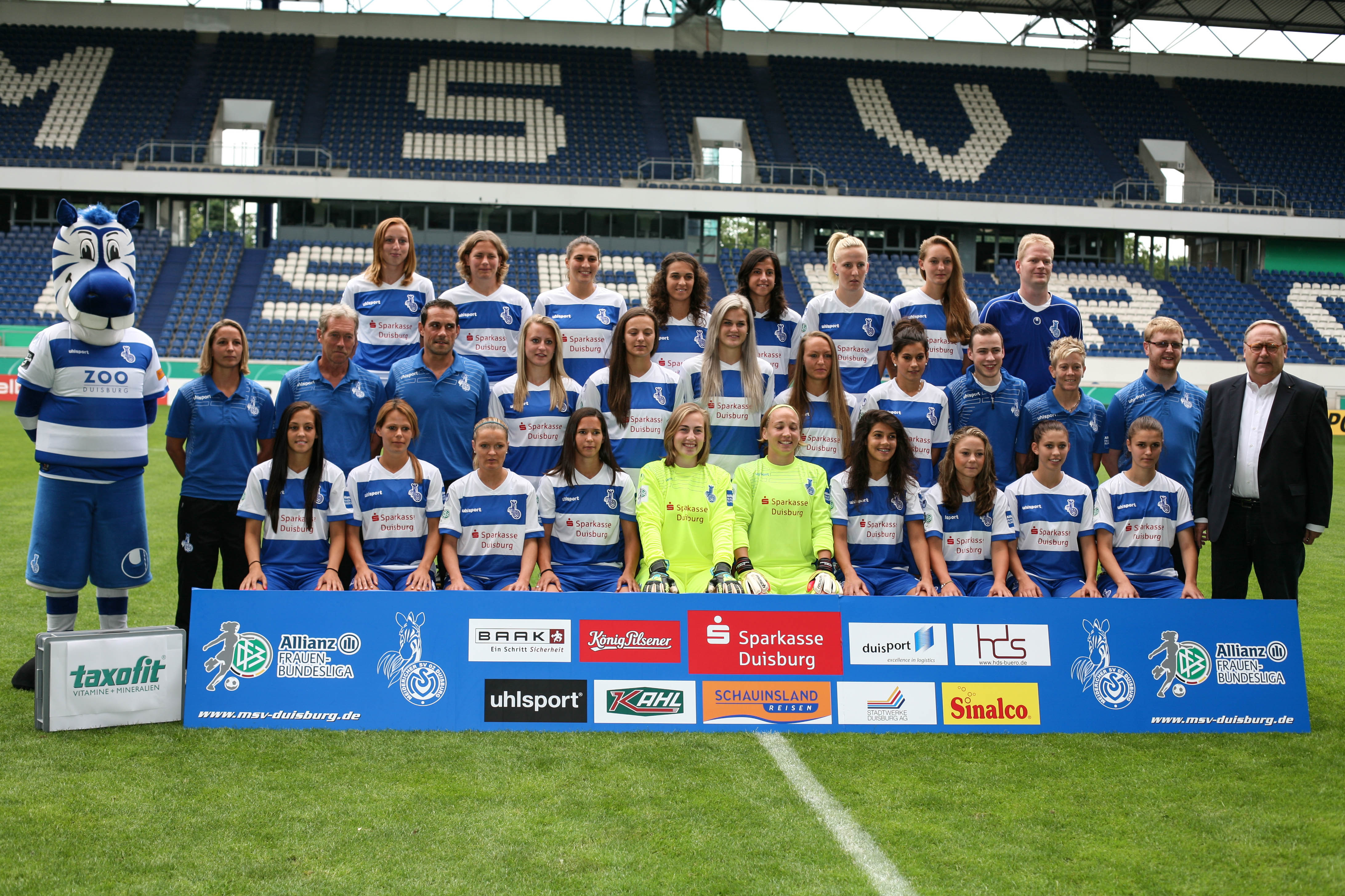 MSV Duisburg women's team - team photo 2014